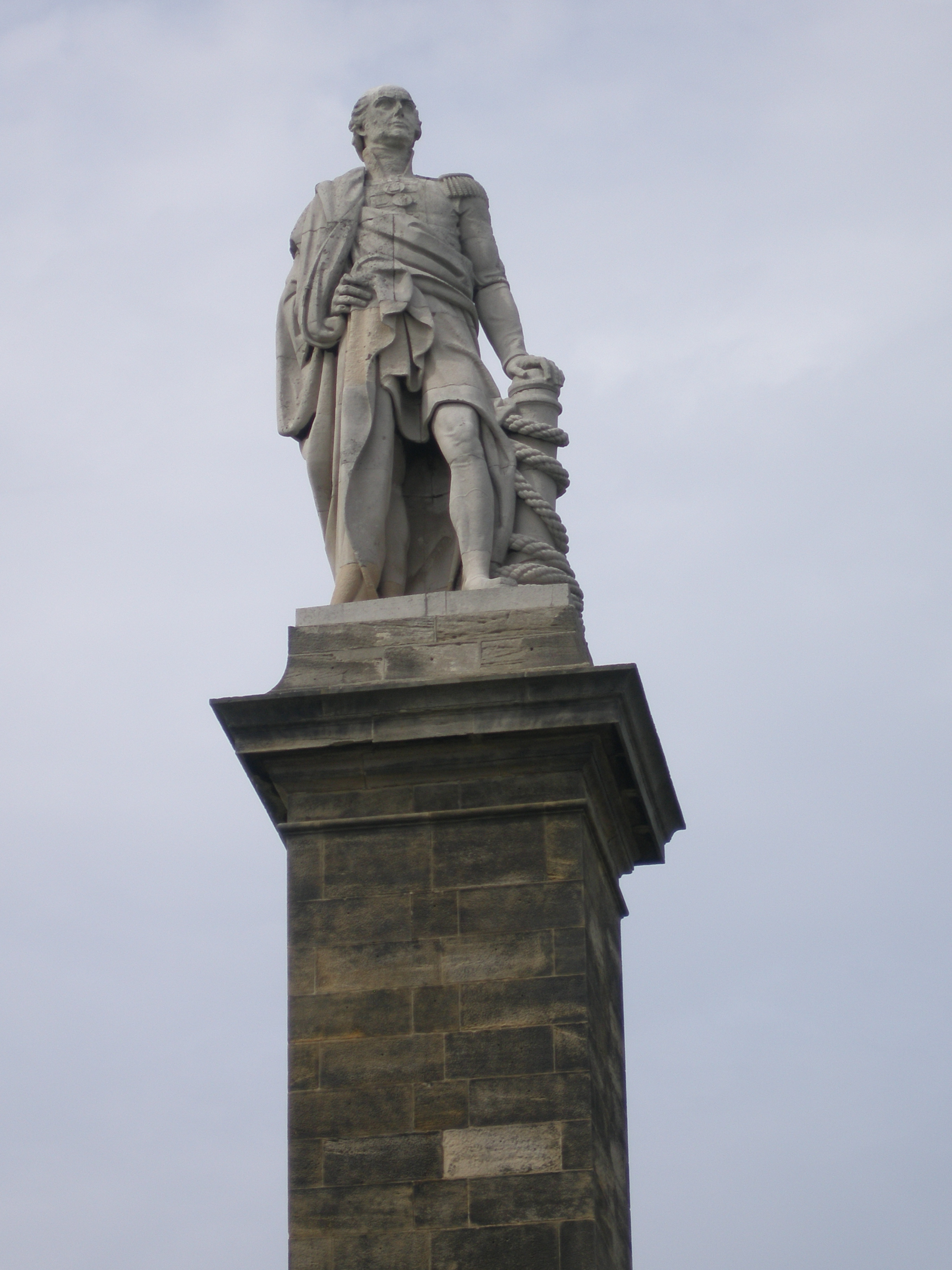 Collingworth Monument at Tynemouth, Tyne and Wear in the United Kingdom. Collingwood, a hero of Trafalgar was born in Newcastle in 1748.